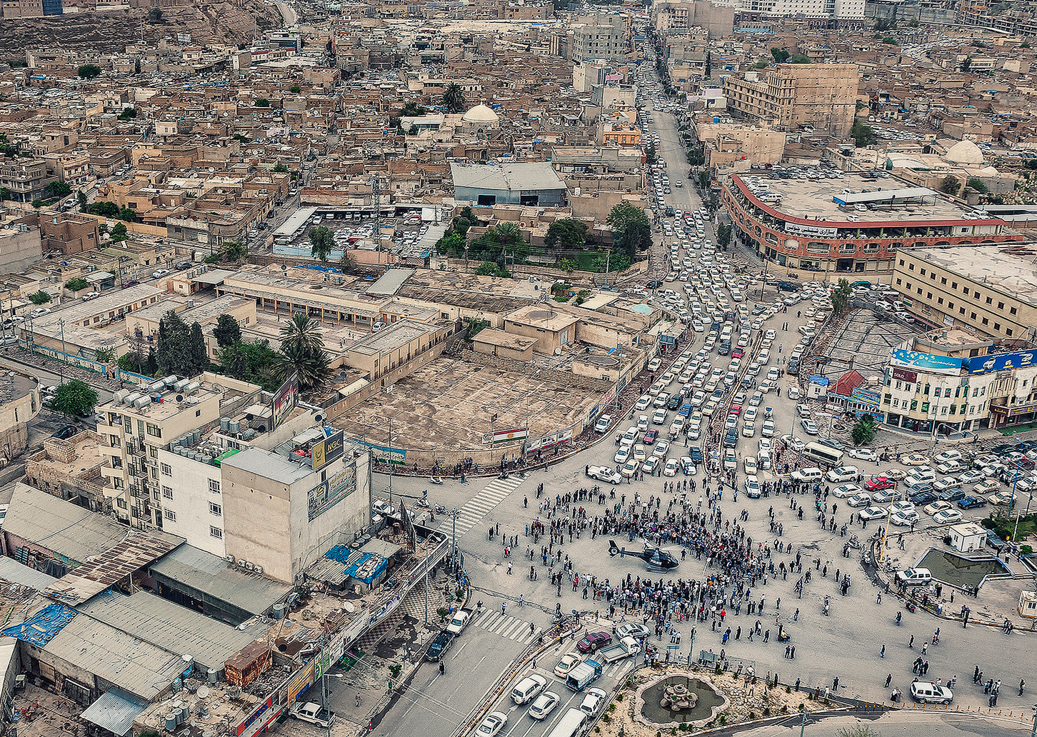 Eurocopter EC120 Colibri of 7G helicopters on the ground in the middle of a road intersection in Erbil, Iraq